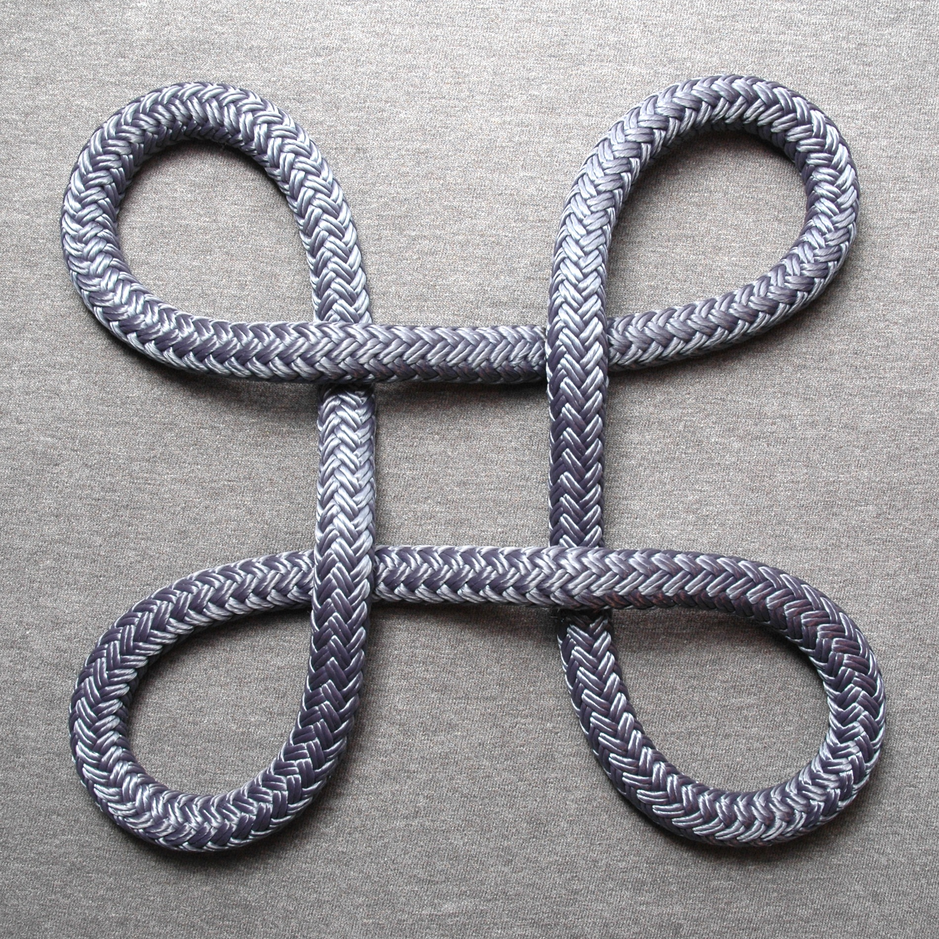 The Bowen knot is an emblem used in heraldry. This image was based on information from James Parker's A Glossary of Terms Used in Heraldry first published in 1894. It is available online here. Specifically the over/under crossings are as depicted in this image.